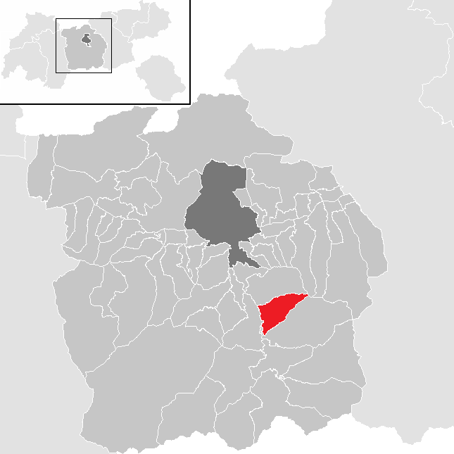 District Innsbruck Land